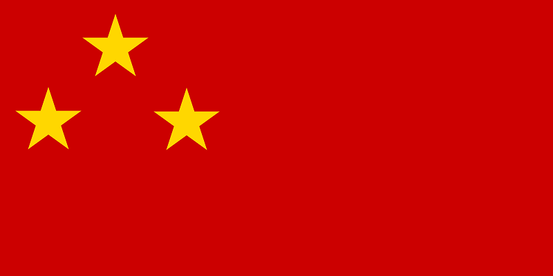 Flag of the Malayan Peoples' Anti Japanese Army